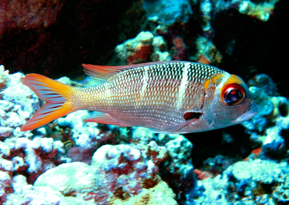 A Big-eye Emperor (Monotaxis heterodon). North Horn, Osprey Reef, Coral Sea219858015